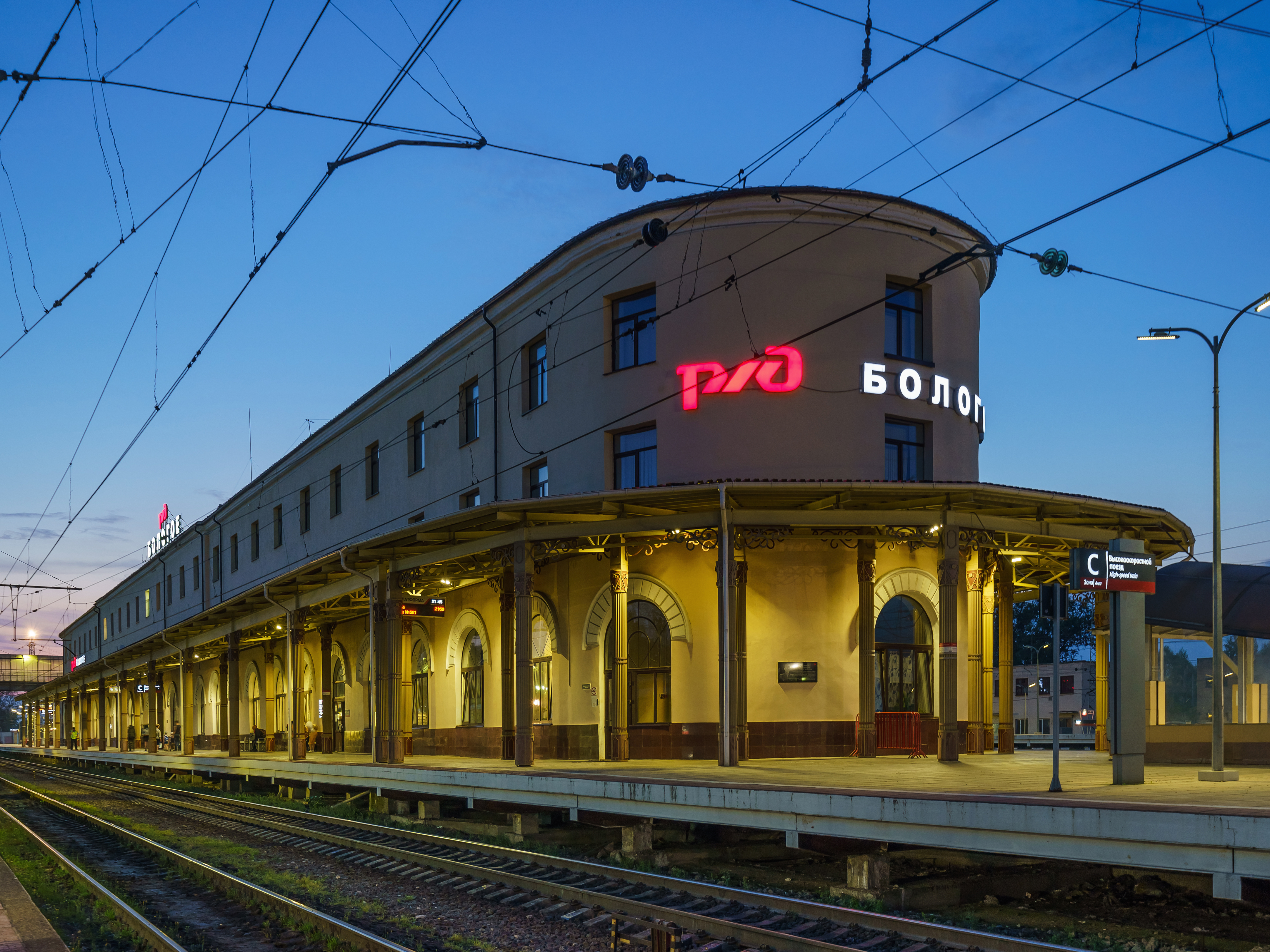 Bologoe-Moskovskoe (or Bologoe-1) railway station in Bologoe, Tver Oblast, Russia.